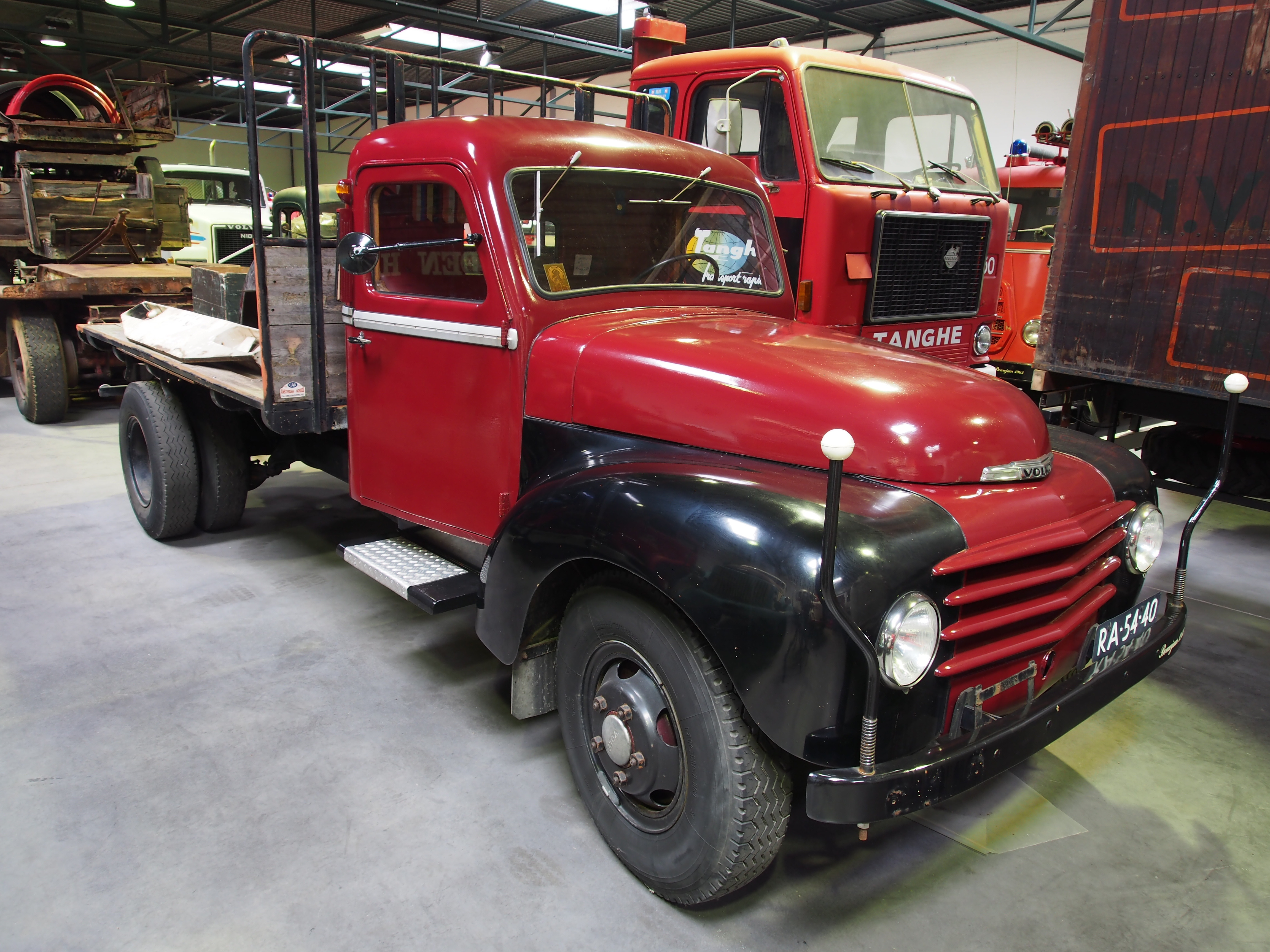 Photographed at the Hyacintenrit 2013 stop in the Jack den Hartogh oldtimer truck mueseum.